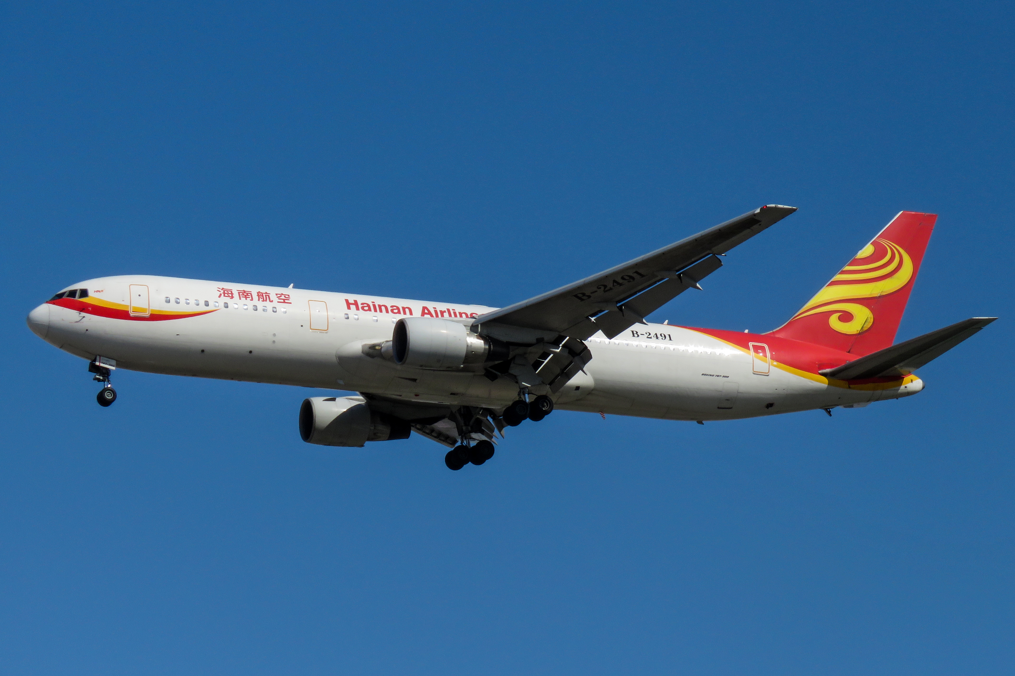 Hainan 7278 from Hangzhou. Time to say goodbye, 767s...